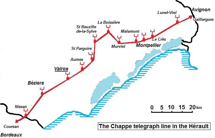 Map showing Chappe chain of semaphore telegraphy in the Hérault département of France